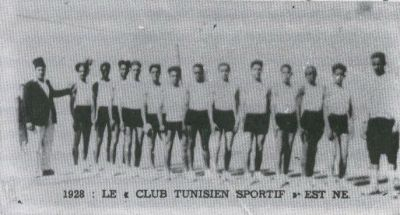 Club Sportif Sfaxien first football team in 1928